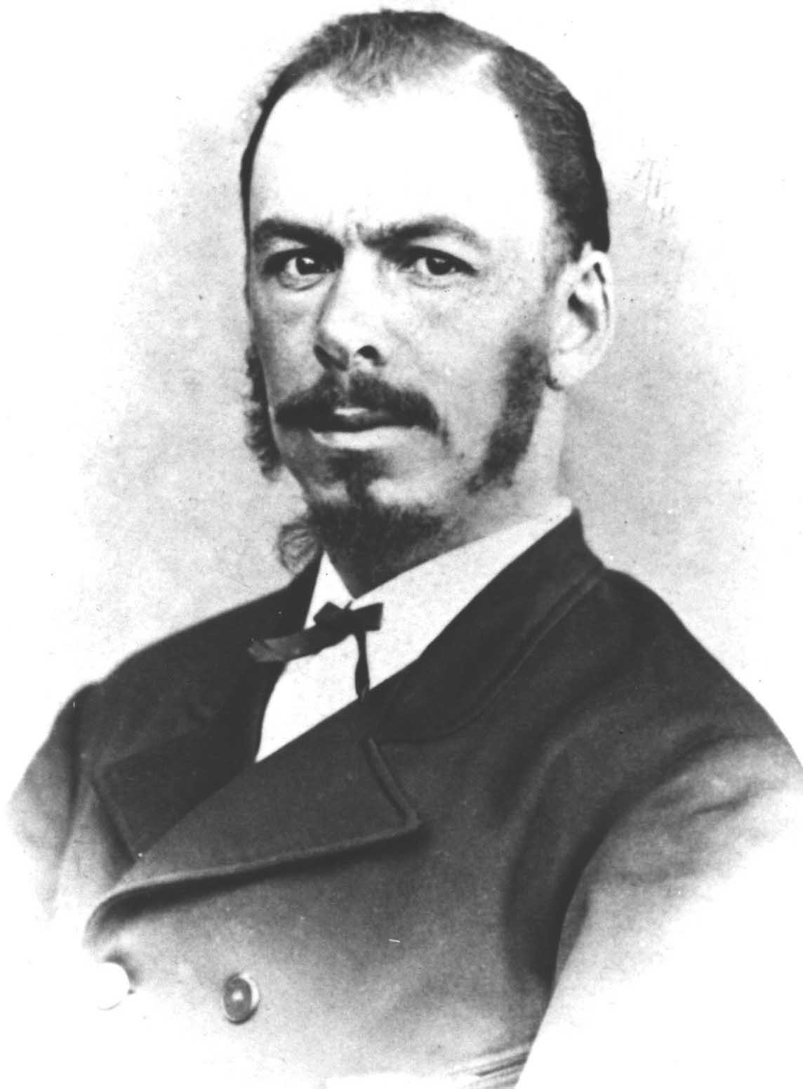 Portrait of Government Secretary and Acting State President of the Orange Free State, P.J. Blignaut